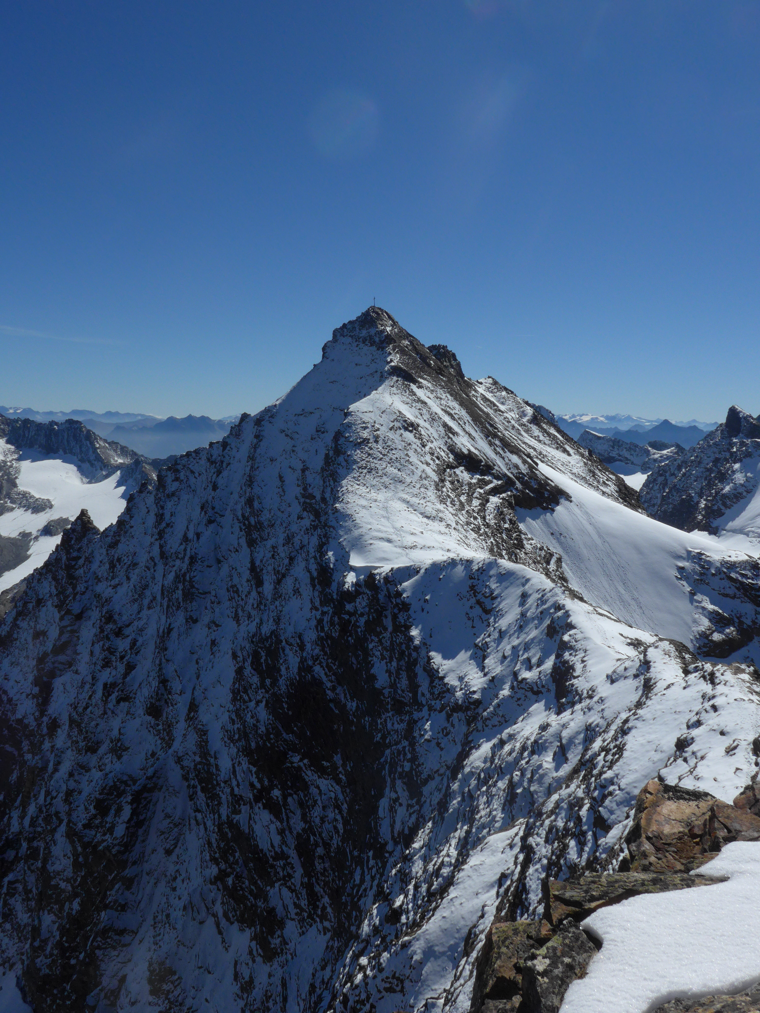 Silvrettahorn from north, from south ridge of Knoten